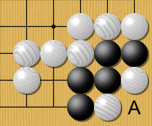 An image to describe the suicide rule in the game of Go.